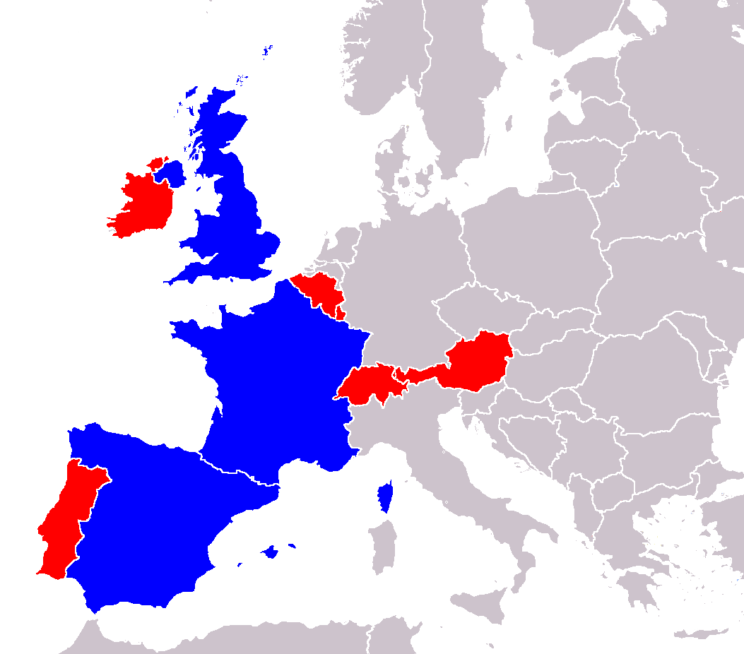 A map of the Euromillions countries